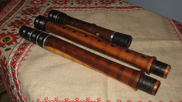 Bulgarian Kaval in "C" disassembled